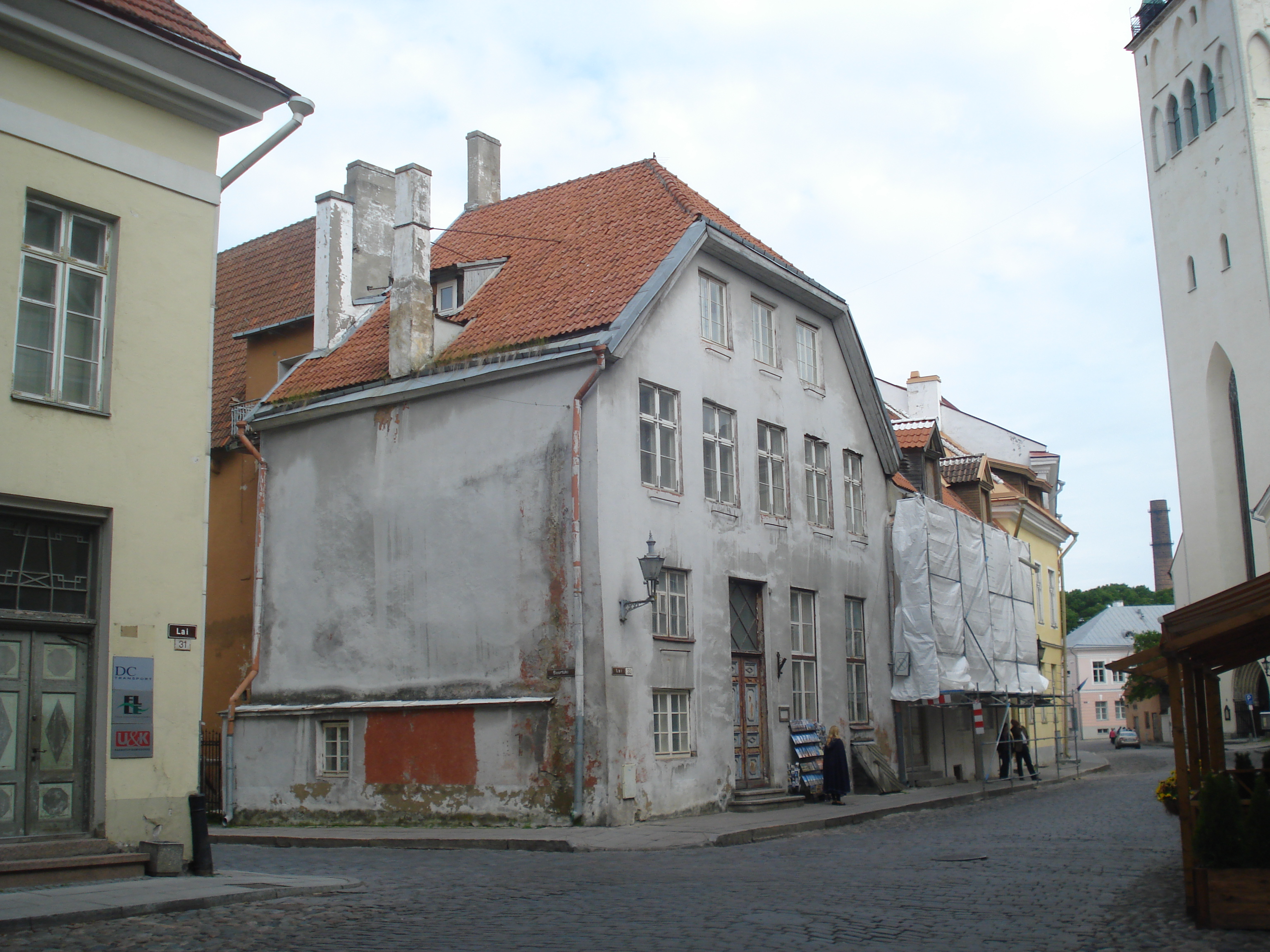 Old buildings in Tallinn at Lai street 31 / Suurtüki street